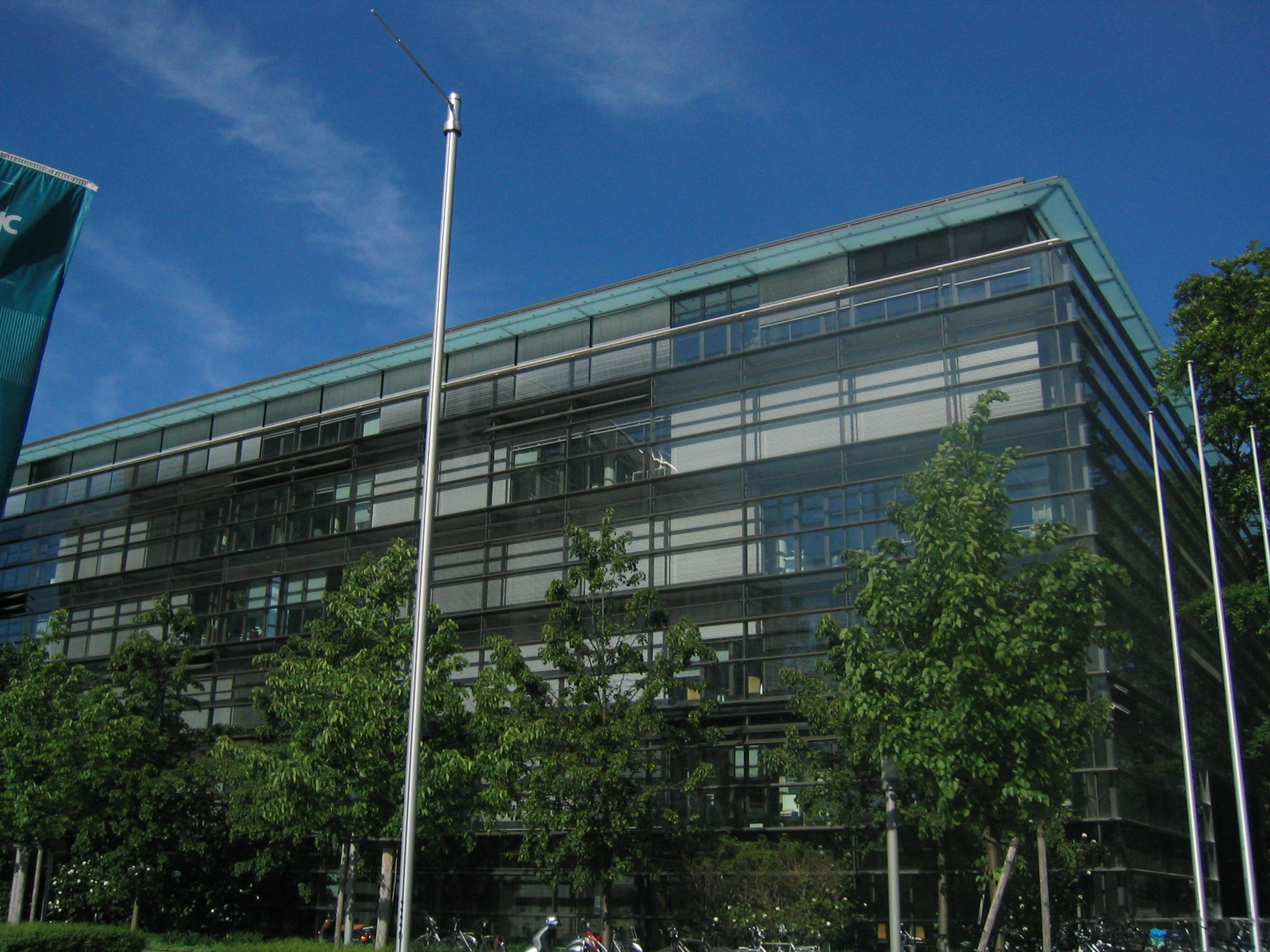 The administration building of the „Max-Planck-Gesellschaft“ scientific society in Munich.